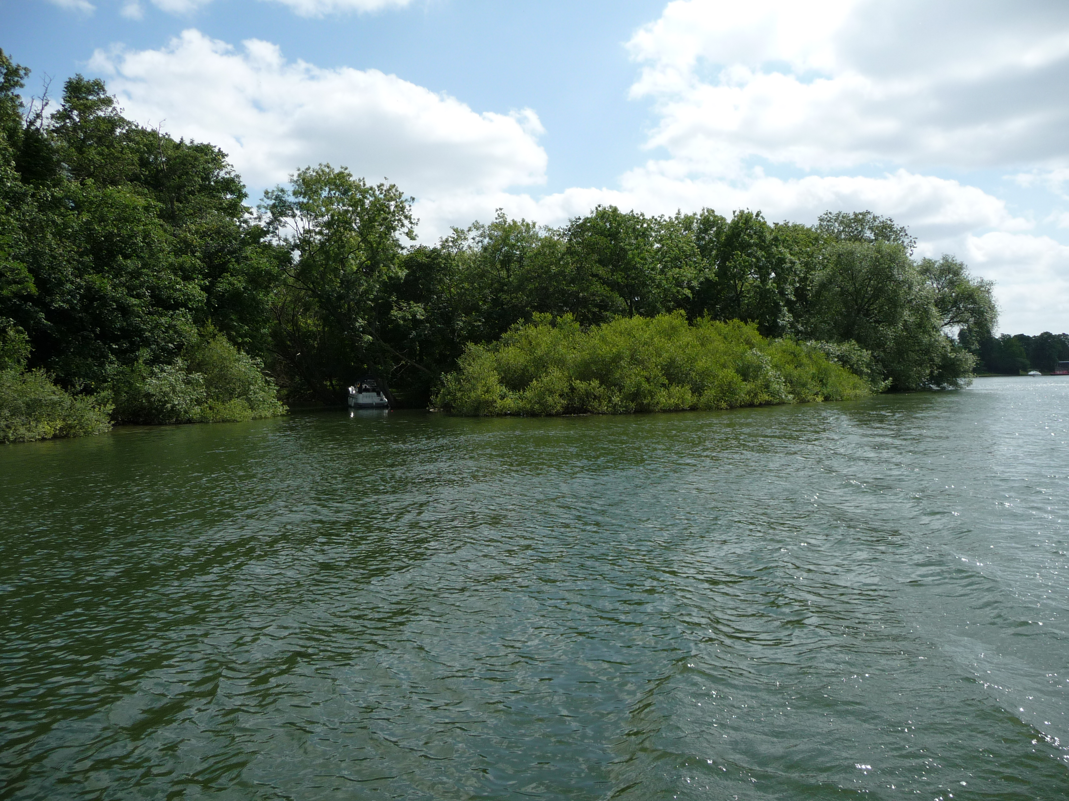 Bush Eyot on the River Thames from the downstream side.